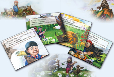 Image of "Eagle Book" coloring book provided by federal government to Native American tribes to combat diabetes.